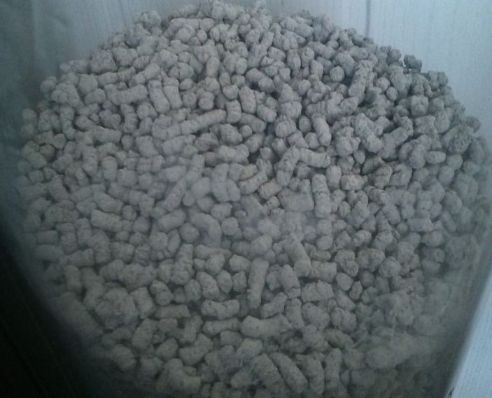 Lithuanian Opoka (Oil absorbent), STONISKIAI, TAURAGE County (LITHUANIA, LT)